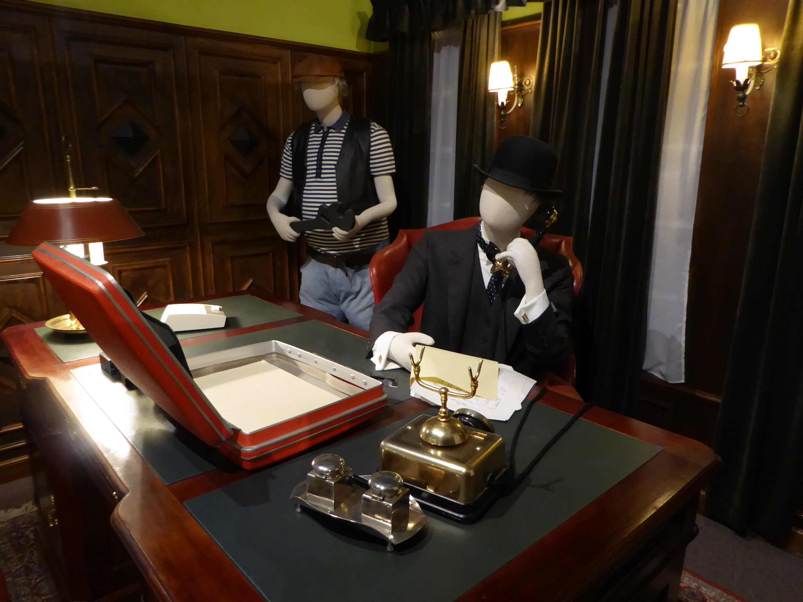 The exhibition Olsen-banden vender hjem at Nordisk Film in Copenhagen with reconstructions of film sets used in the Olsen-banden films. The characters Bøffen and Bang-Johansen in the office of Bang-Johansen.